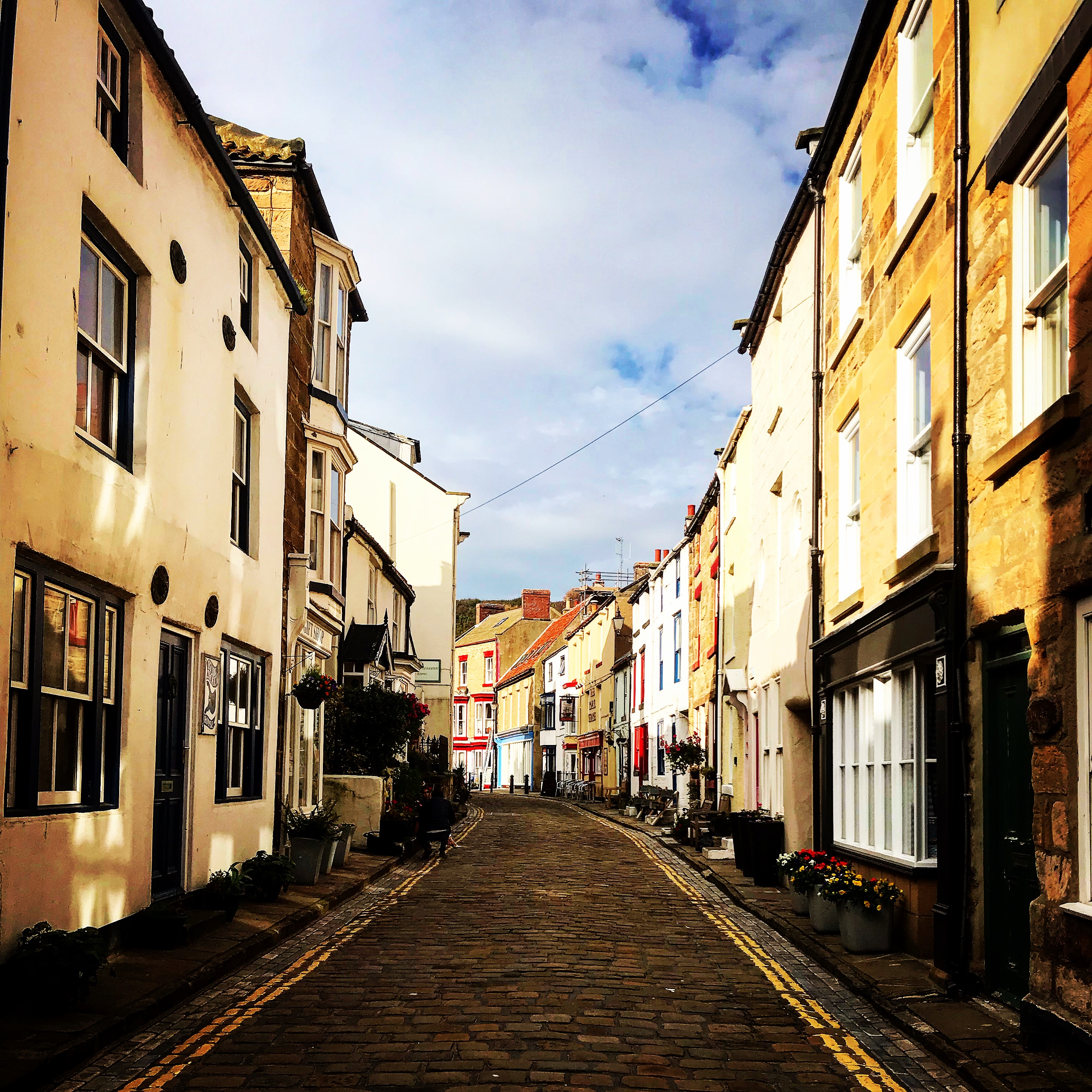 Staithes village shops and main road to the dock